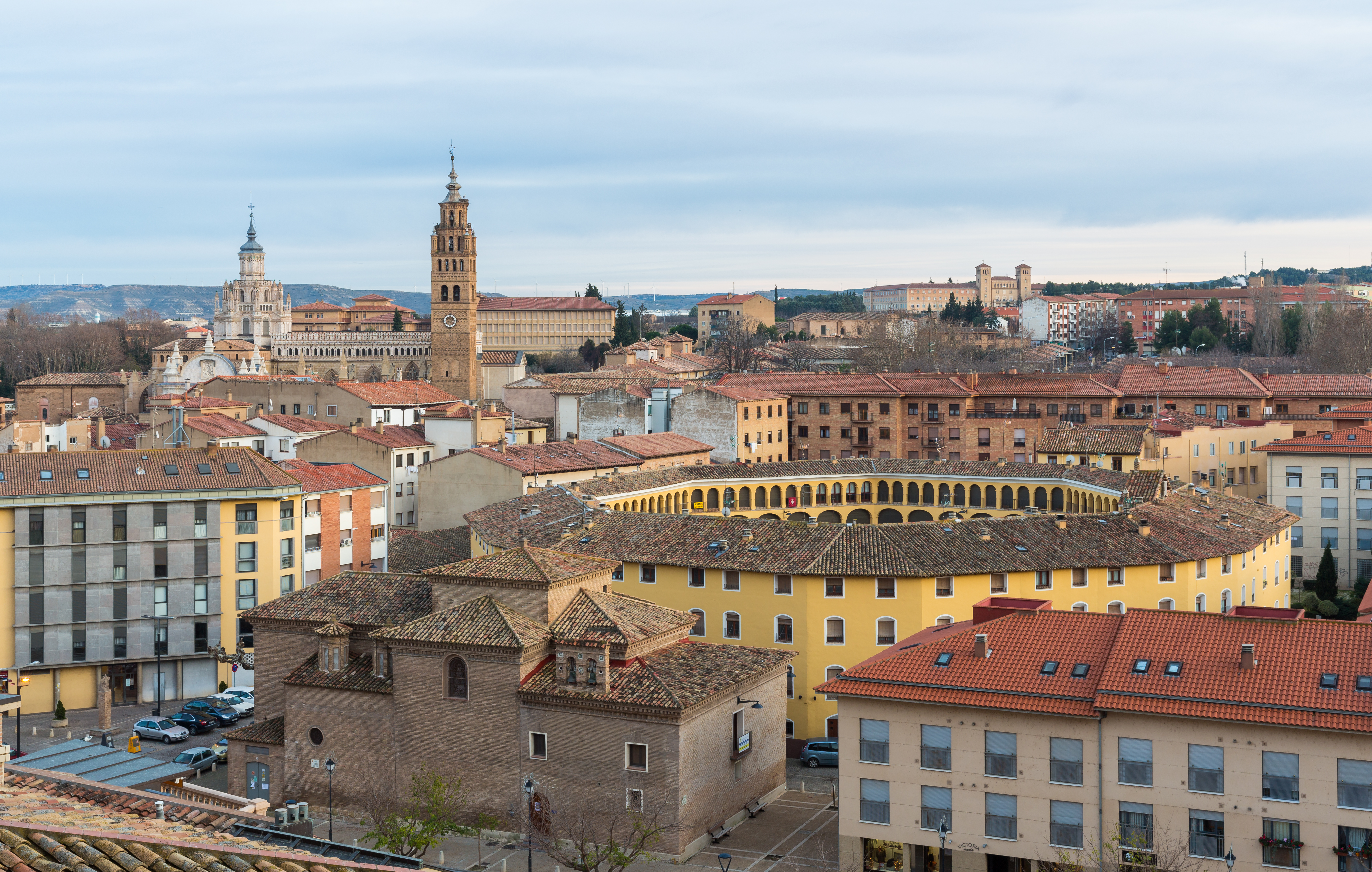 General view of Tarazona from the Episcopal Palace, Spain.